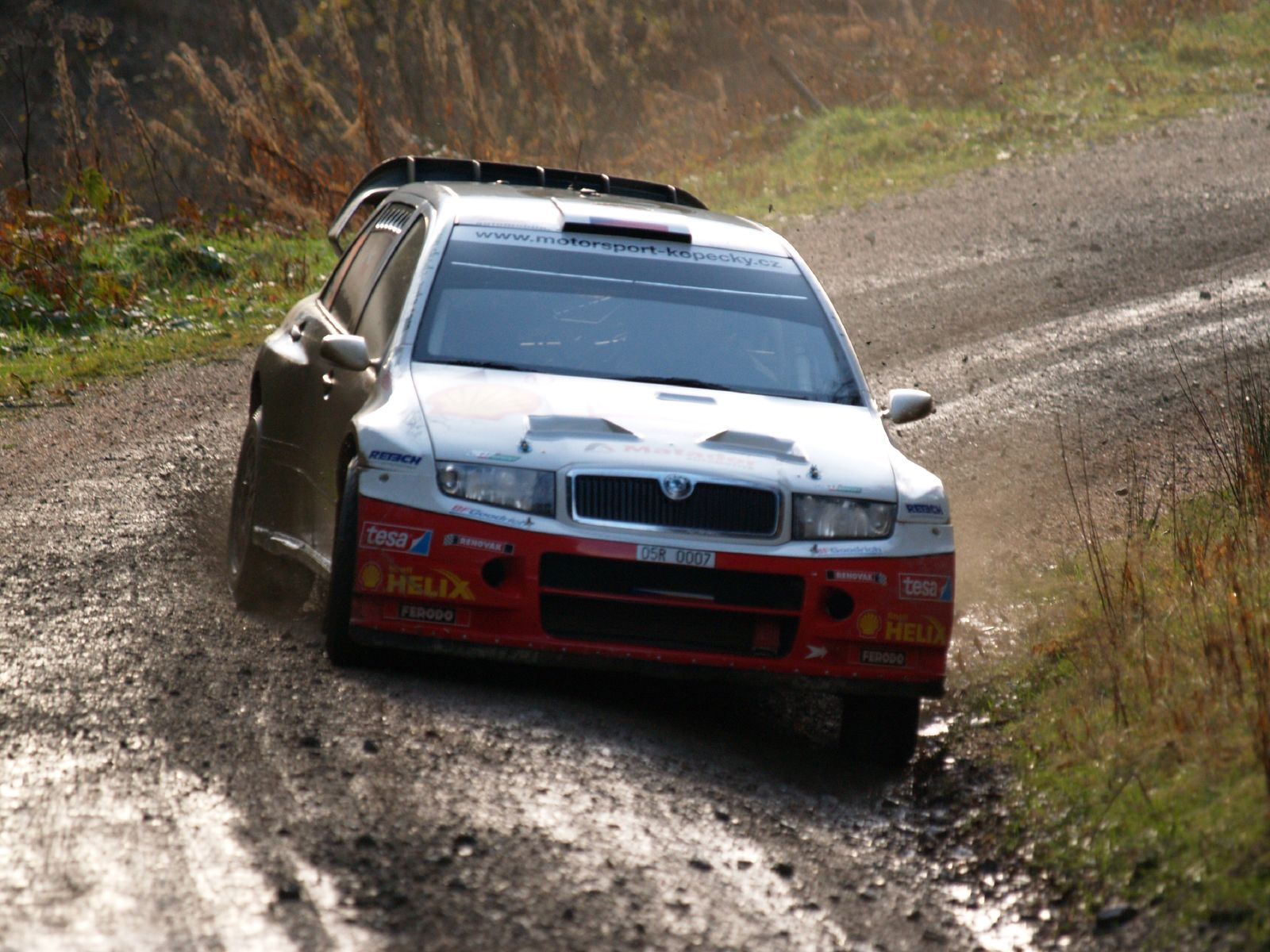 Jan Kopecký driving his Škoda Fabia WRC during 2007 Wales Rally GB.